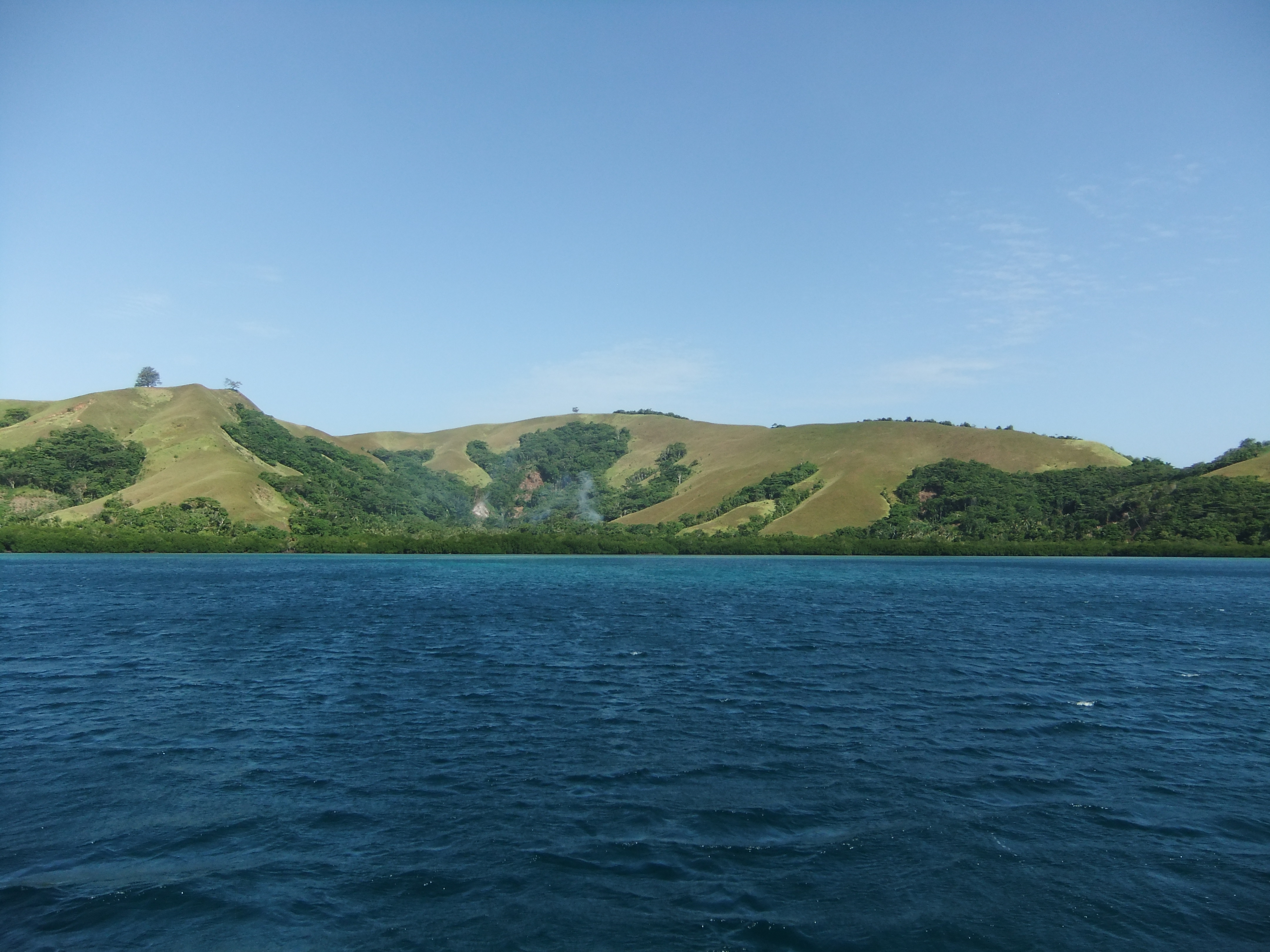 Robinsons Anchorage off of Kuwanak Island